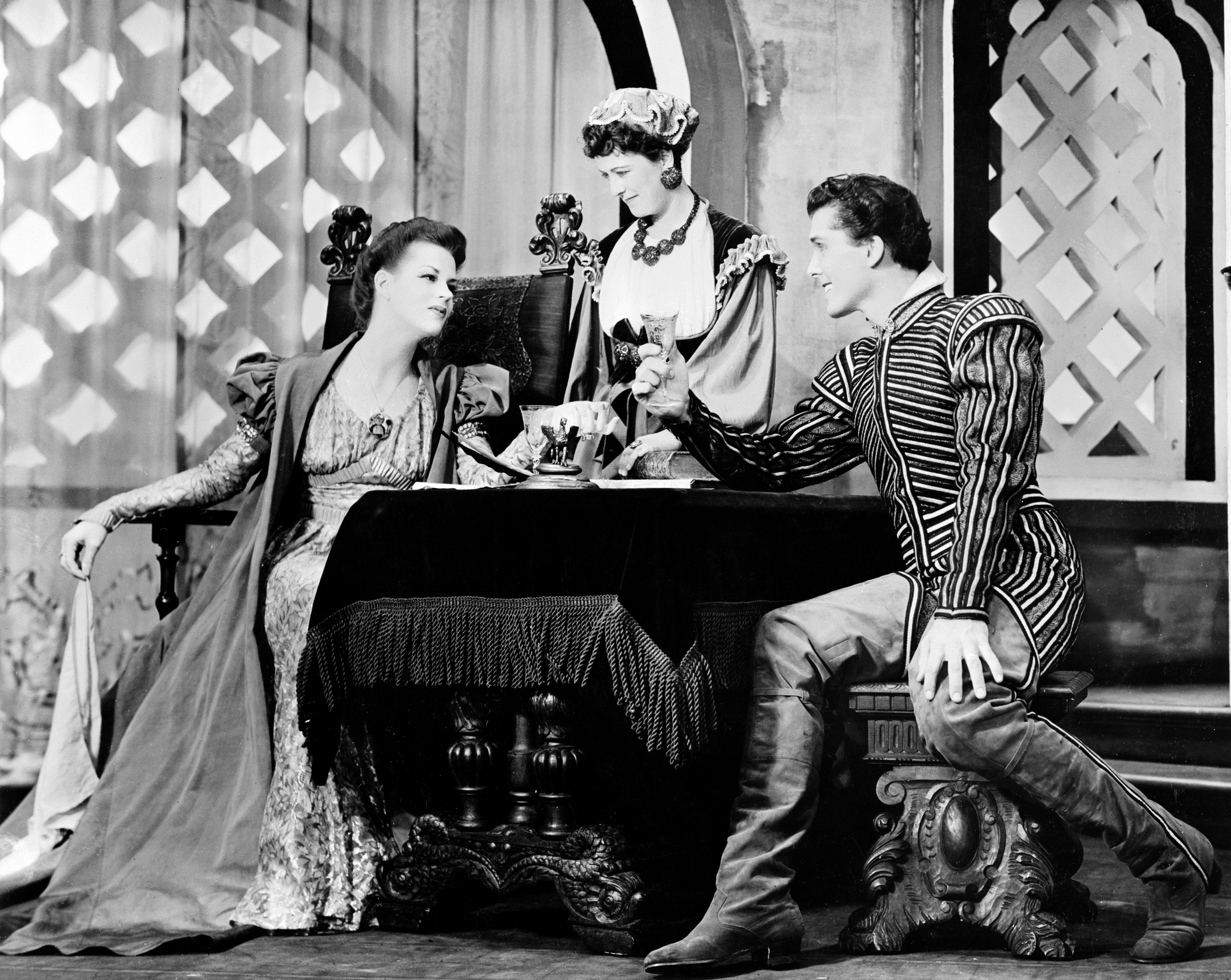 Title: [Scene from "Othello" with Uta Hagen as Desdemona (left), Margaret Webster as Emilia, and Jack Manning as Roderigo. Theatre Guild Production, Broadway, 1943-44] Date Created/Published: [1943 or 1944] Medium: 1 negative ; 5 x 7 inches or smaller. Reproduction Number: LC-USW331-054939-ZC (b&w film neg.) Rights Advisory: No known restictions on images made by the U.S. government; images copied from other sources may be restricted. For information, see U.S. Farm Security Administration/Office of War Information Black & White Photographs( Call Number: LC-USW331- 054939-ZC [P&P] Repository: Library of Congress Prints and Photographs Division Washington, D.C. 20540 Notes: Title and date based on negative LC-USW33-054945. Transfer; United States. Office of War Information. Overseas Picture Division. Washington Division; 1944. More information about the FSA/OWI Collection is available at fsa.8e07908